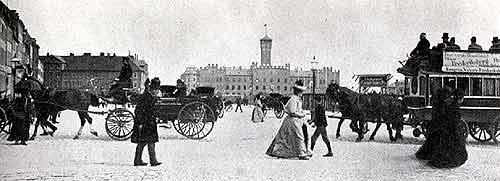 Halmtorvet with the Hovedbrandstation in Copenahgen, Denmark.